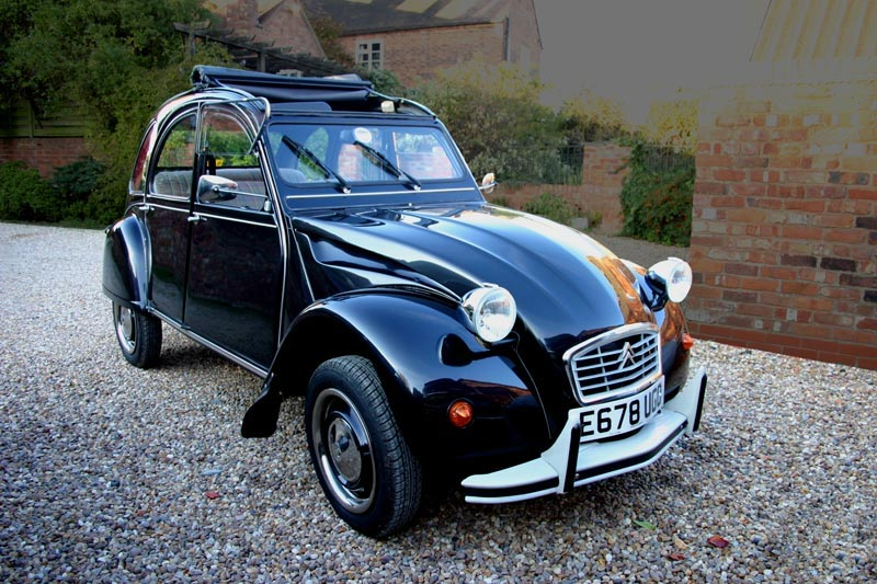 This 2cv was originally a "Bamboo" edition, purchased new in 1987 by G Cullimore (pinkdylan) but sold 11 months later. Shortly after sale was seen repainted black (unusual for such a new car). Car re purchased by G Cullimore in 2006 18 years after first selling it, and then subjected to a full rebuild by Frome 2CV Centre. Use of image must be accompanied by a clear text credit "Copyright Graham Cullimore, PinkDylan, Car Rebuilt by Frome 2CV"